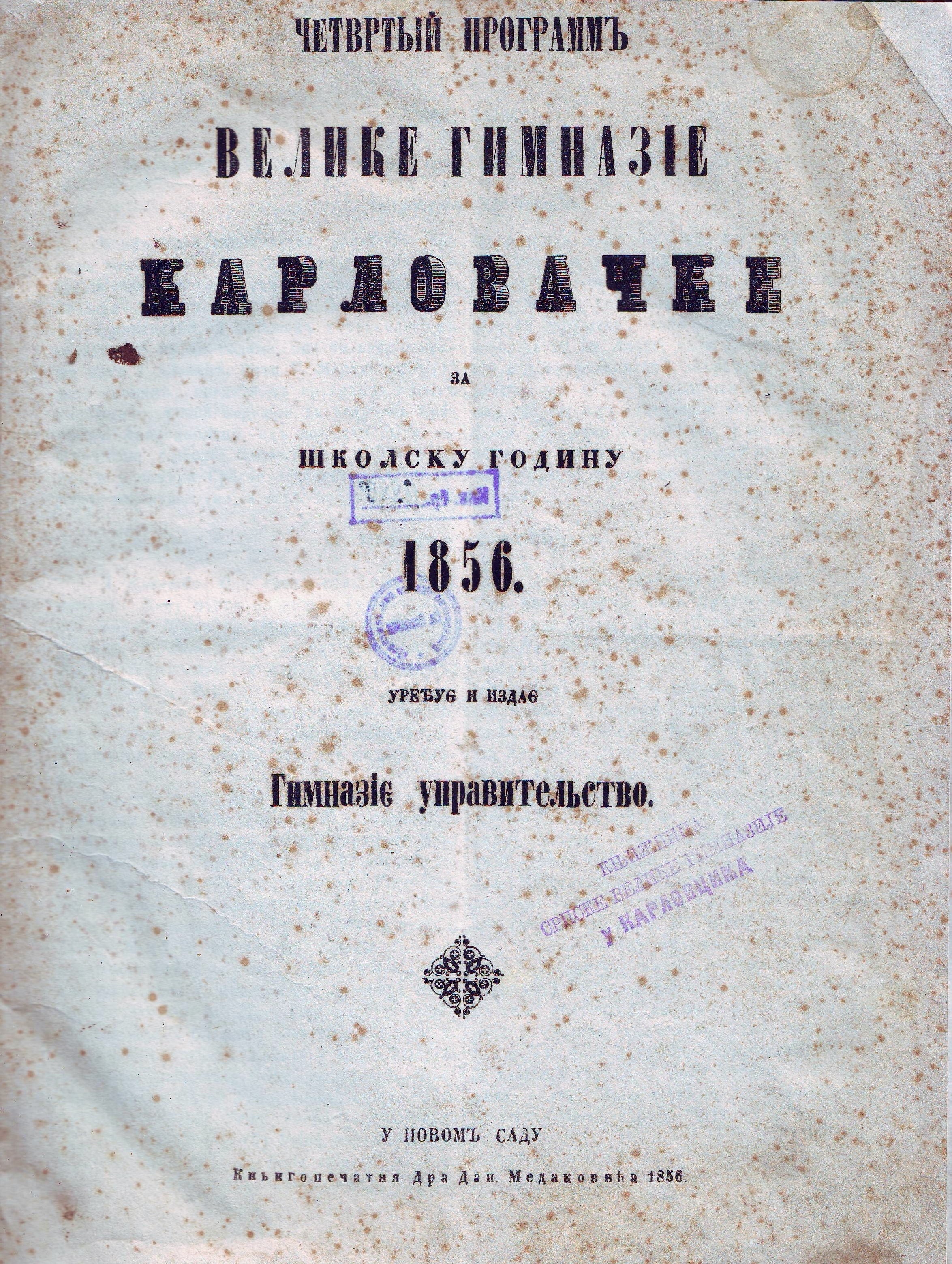 Fourth Program (report) of the Karlovci Gymnasium (1856). Srpski (latinica): Četvrti program (izveštaj) Karlovačke gimnazije (1856).